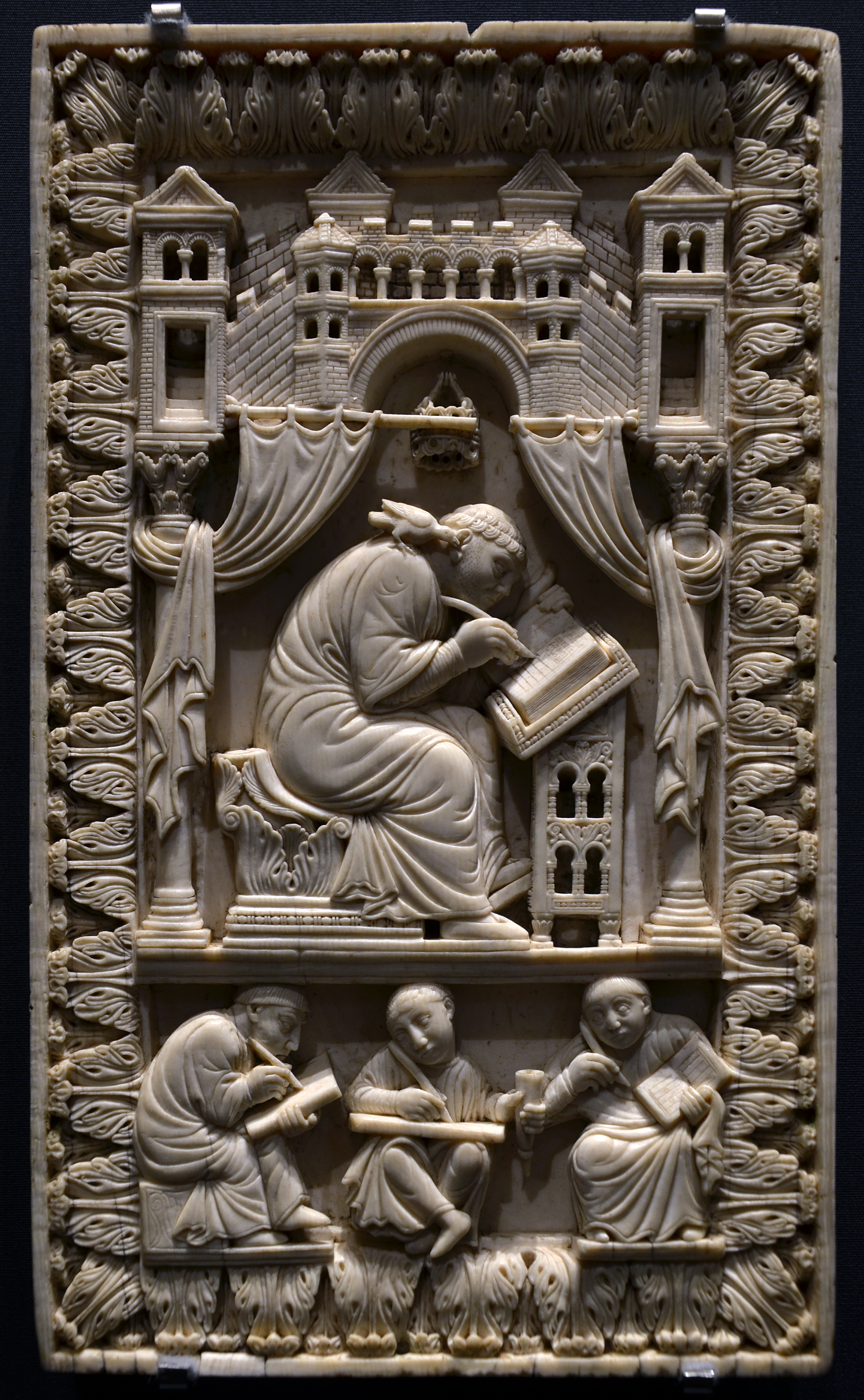 Saint Gregory the Great with scribes, Lorraine (?), late 10th century. Ivory relief from the cover of a sacramentary. Now in the Kunsthistorisches Museum in Vienna.